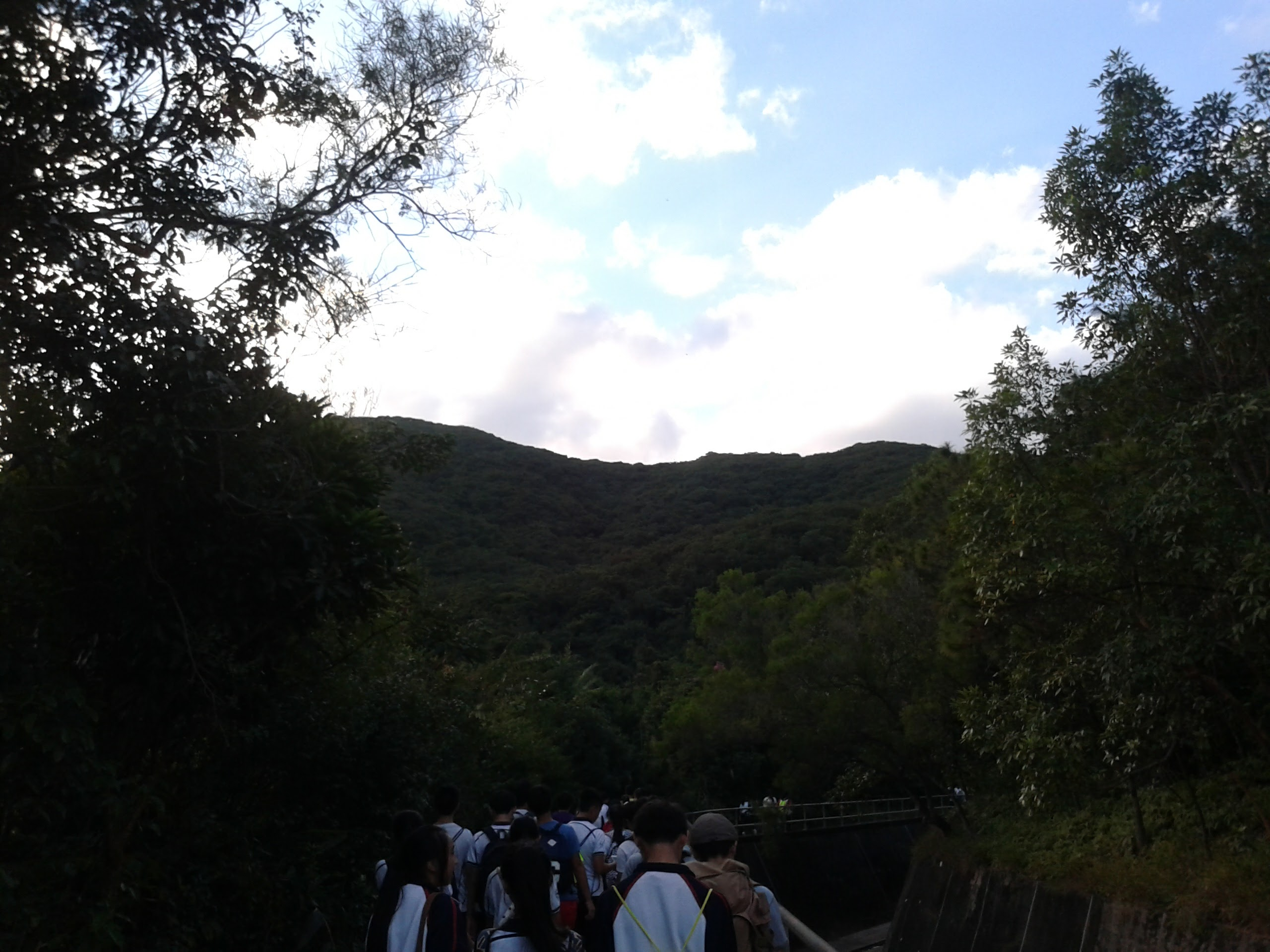 Tin Wan Shan viewed from Aberdeen Reservoir Road